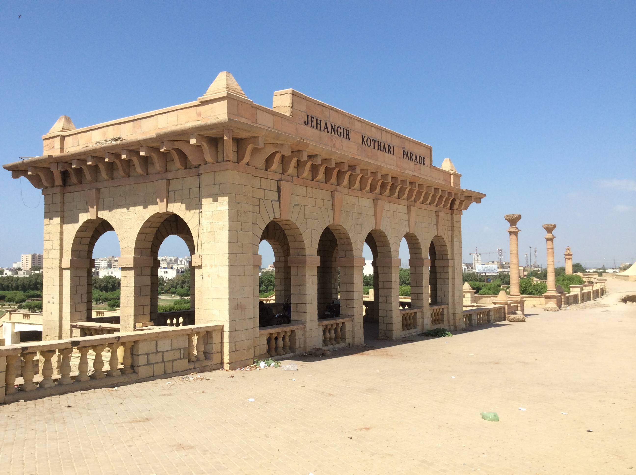 Jehangir Kothari Parade and Pavilion This is a photo of a monument in Pakistan identified as the SD-P-70